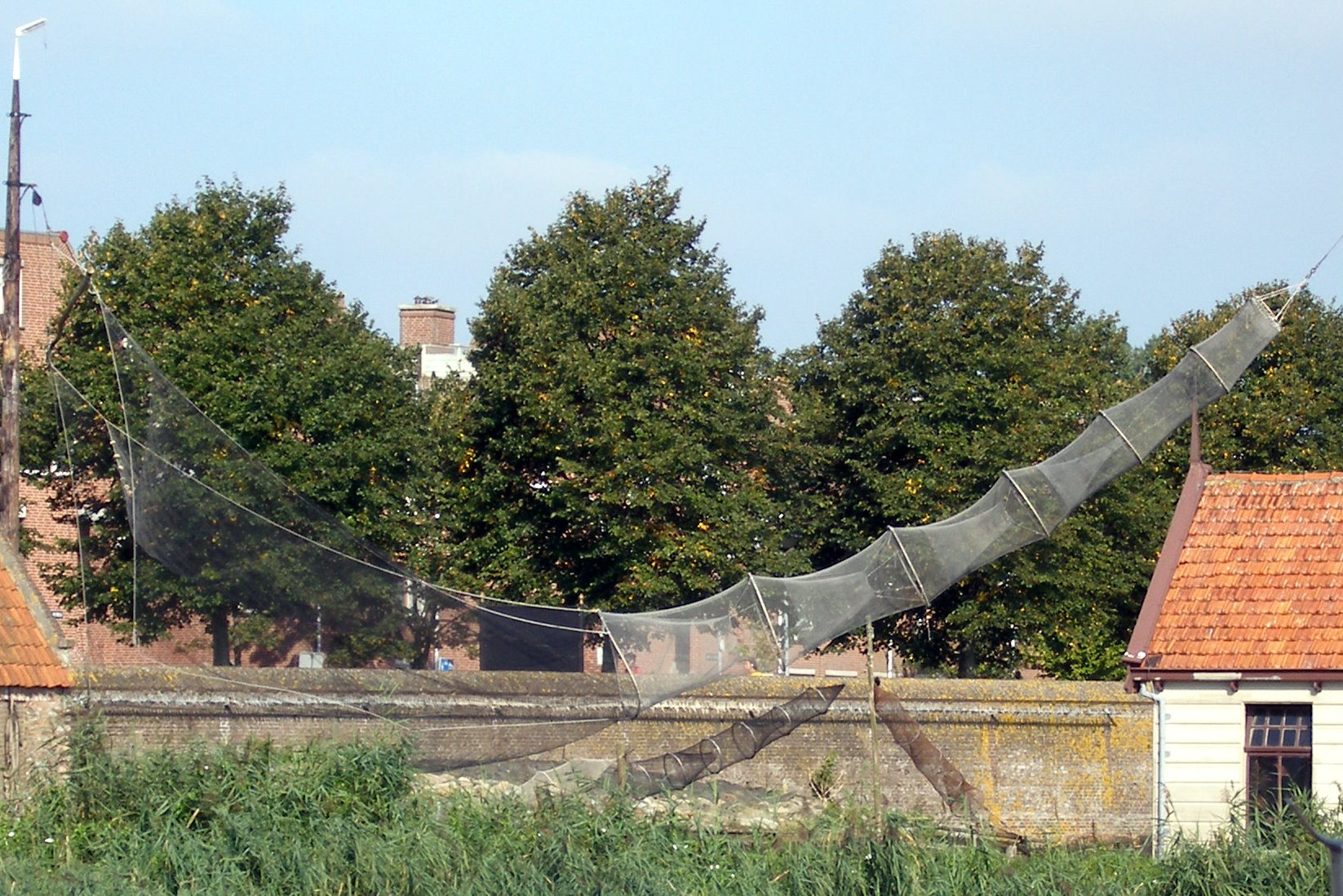 Three fykes at the Zuiderzeemuseum